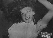 Pin-up photo of Joan Leslie for the Sep. 28, 1945 issue of Yank, the Army Weekly, a weekly U.S. Army magazine fully staffed by enlisted men.